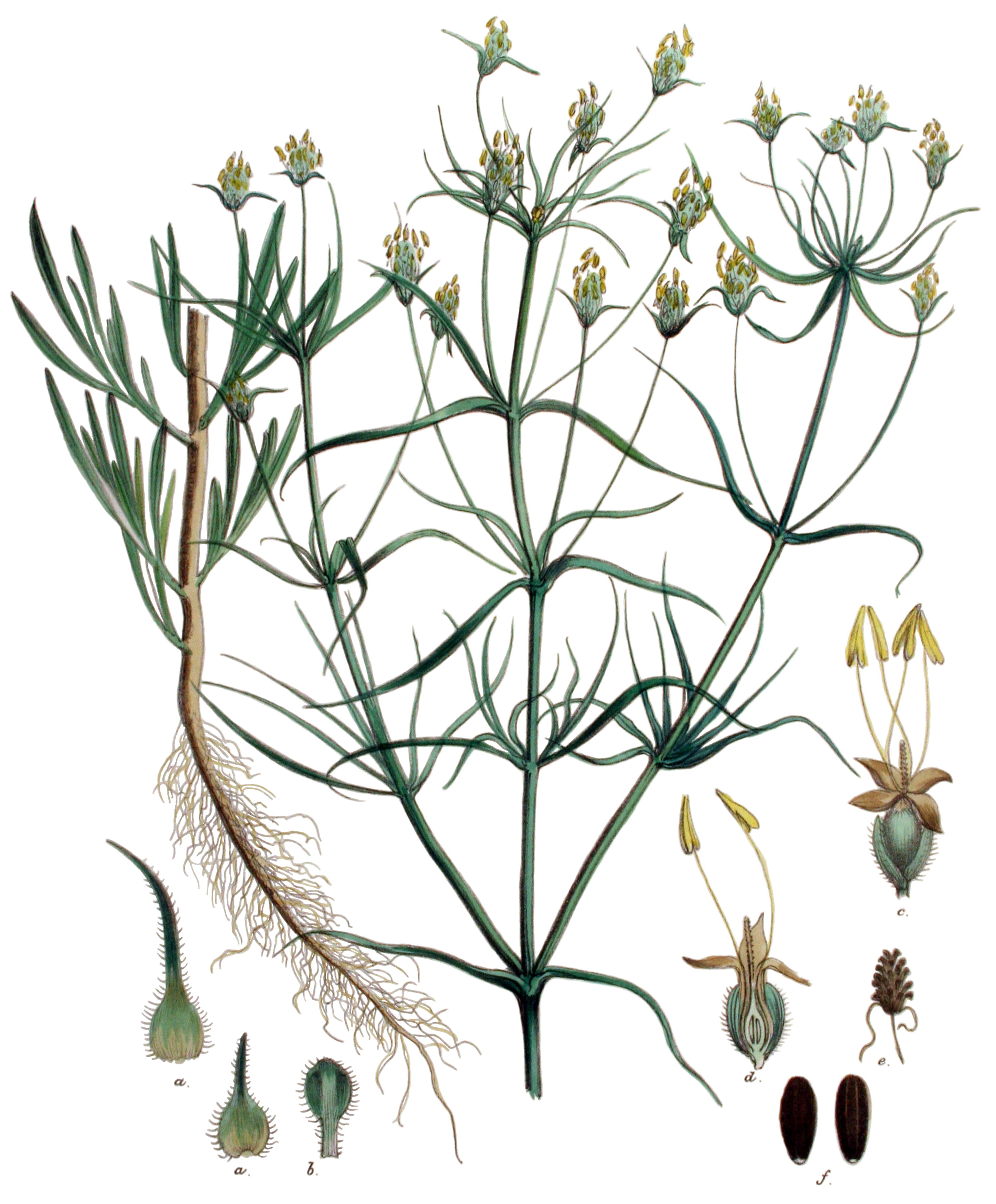 Plantago arenaria Waldst. & Kit. (syn. P. psyllium L., P. indica L., P. scabra Moench). Illustration from Flora Batava of Afbeelding en Beschrijving van Nederlandsche Gevassen, XVI. Deel. (1881), Volume 16. Its caption reads: "PLANTAGO ARENARIA W. K. 1272."